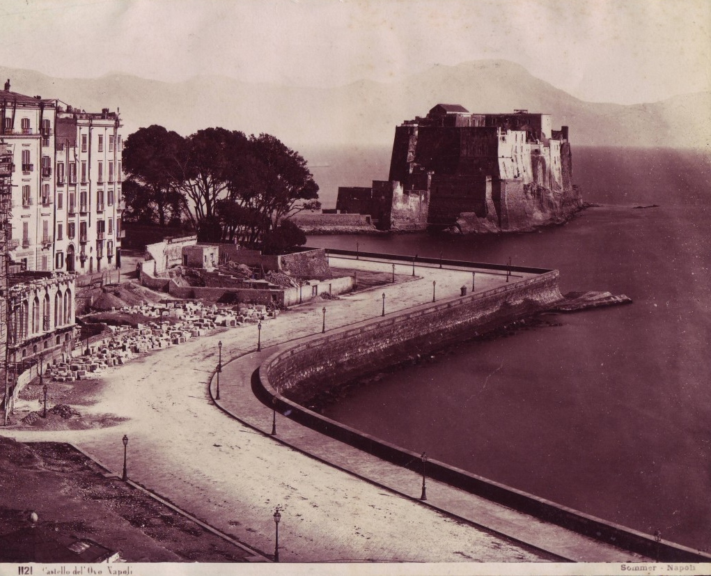 Giorgio Sommer (1834-1914), "Castel dell'Ovo - Naples". Catalogue number: 1121.